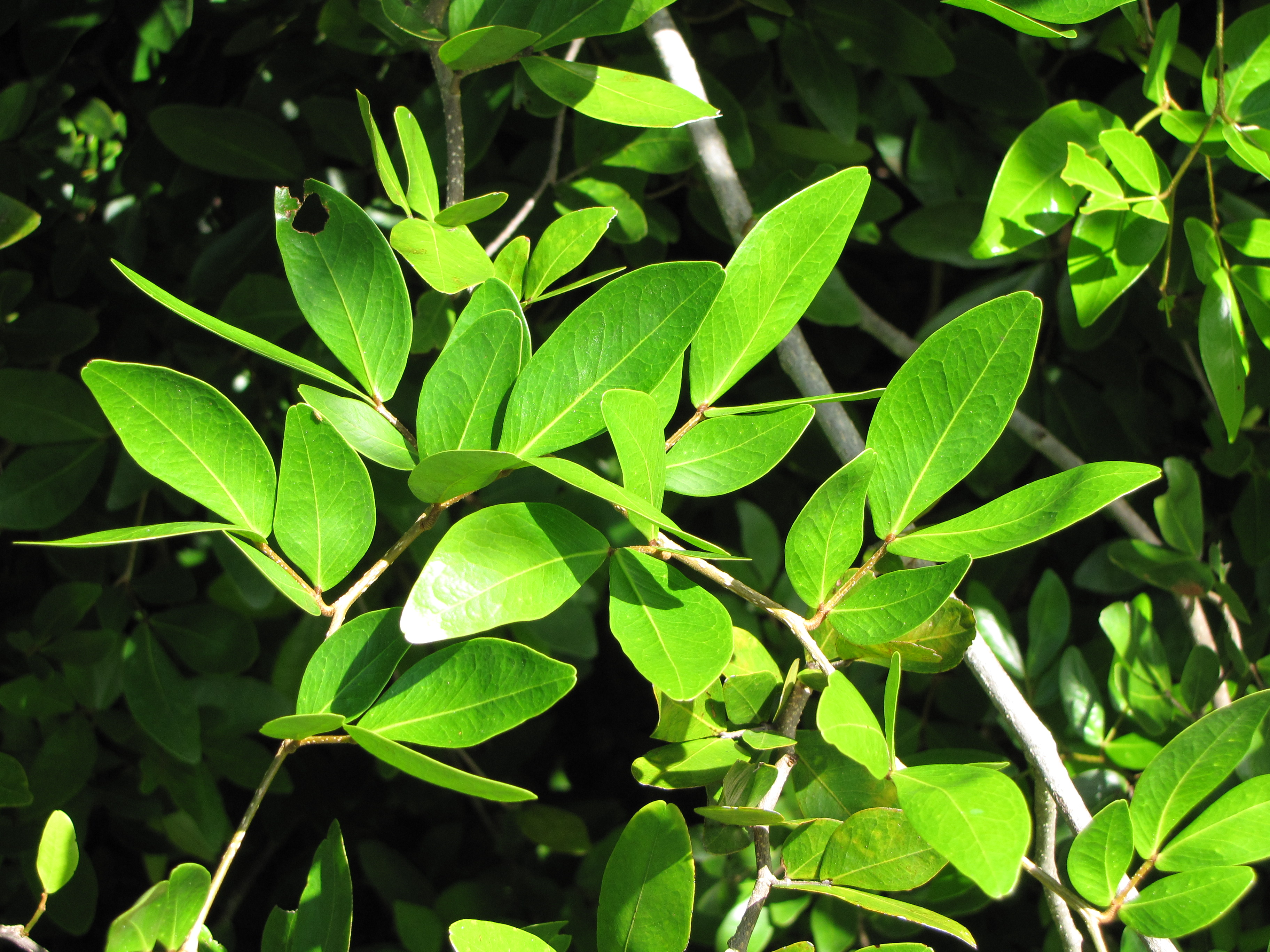 Leaves of Cynometra iripa, Kahanu Gardens